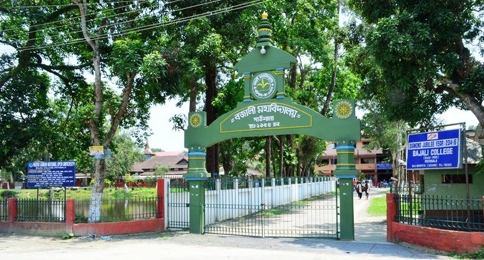 College front